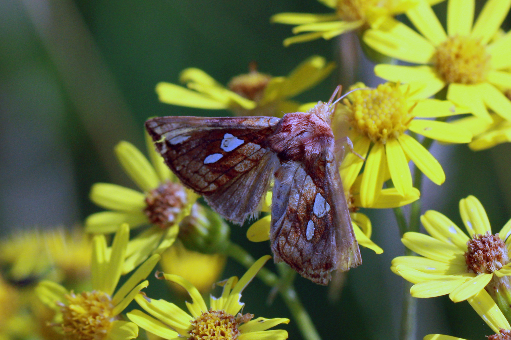 Gold spot moth (Plusia festucae), Otmoor RSPB Reserve, Oxfordshire